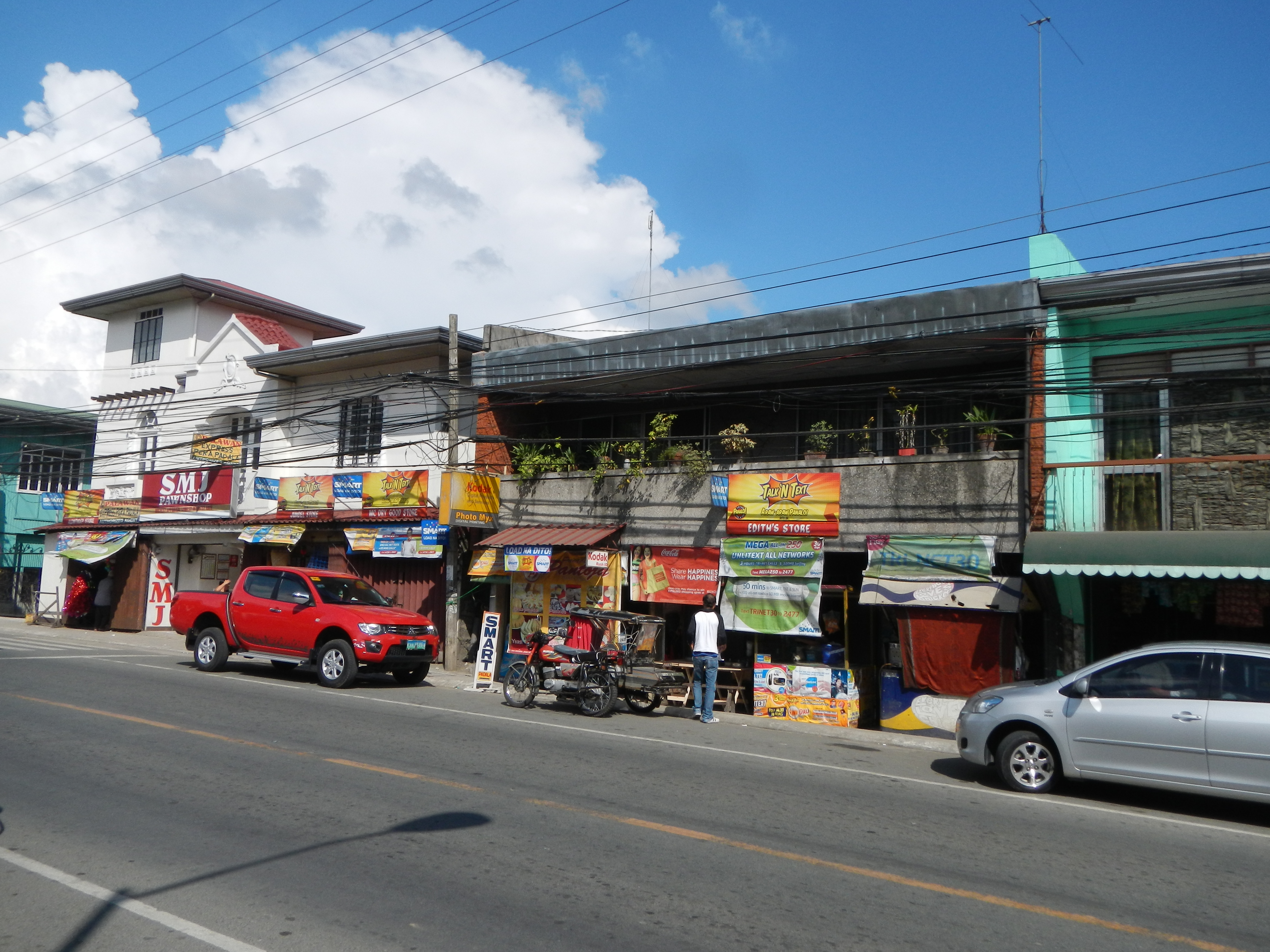 Upload Wizard photo of the - Town Proper, Jollibee, Poblacion Rosario [1] Coordinates: 13°50'44"N 121°12'22"E - Rosario, Batangas [2] (a 1st class municipality in the province of Batangas, Philippines; 2000 census, population of 86,110 people in 16,288 households).[3] Website [4] - Aksyon ng Bayan Rosario 2001 And Beyond [5] [6] - Aksyon ng Bayan Rosario 2001 And Beyond Human and Ecological Security Plan evolved by Executive Order No. 98-02, October 5, 1998 by Mayor Rodolfo Guerra Villar of Rosario, Batangas in compliance with 1992 Earth Summit in Rio de Janeiro.[7]).